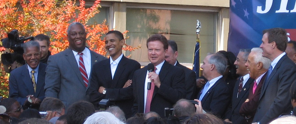 Photo from the political rally for Jim Webb at Virginia Union. Photo includes Jim Webb, Barack Obama, Doug Wilder, Mark Warner, Tim Kaine and others.